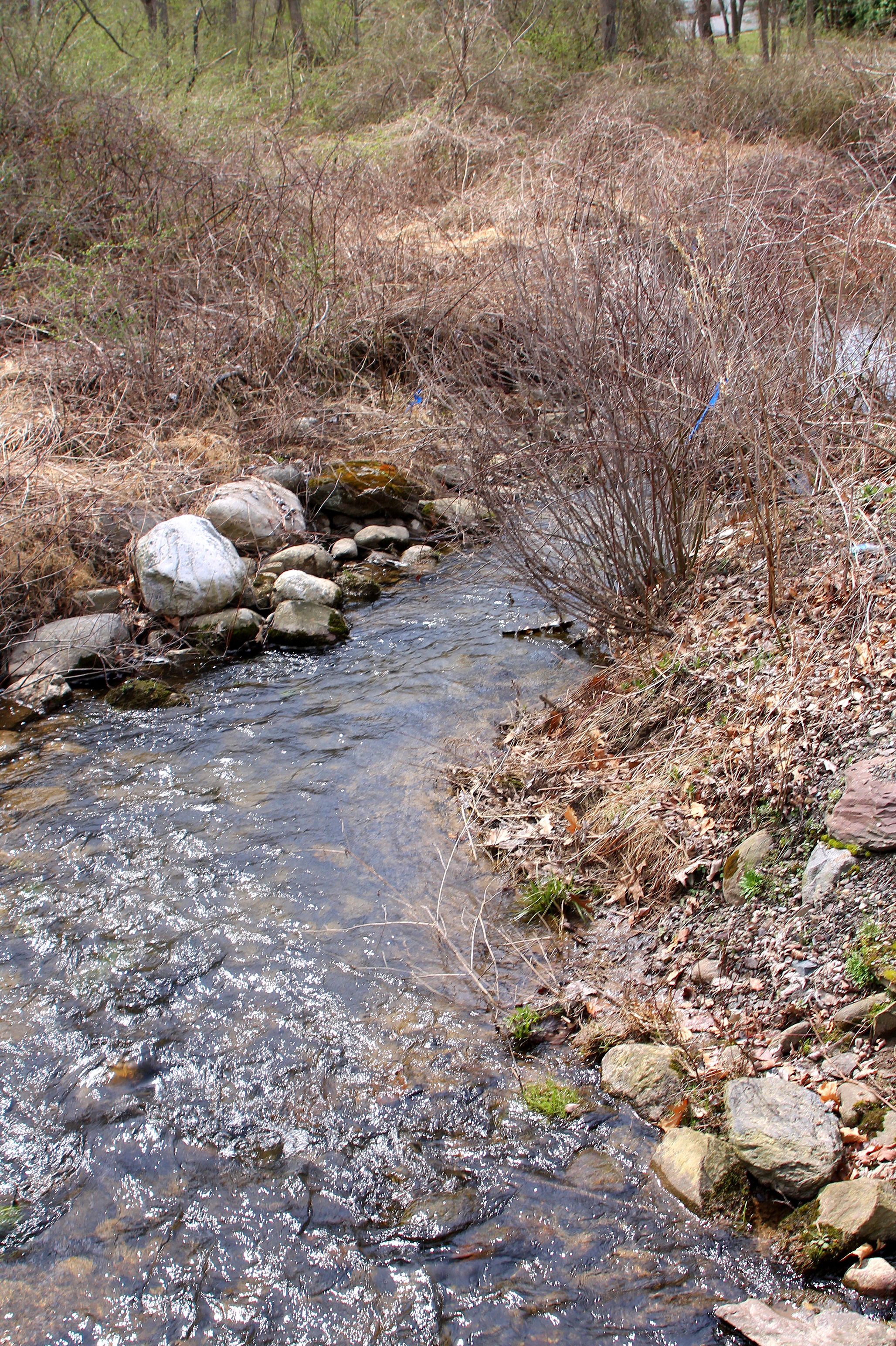 Salem Creek looking downstream, April 2015